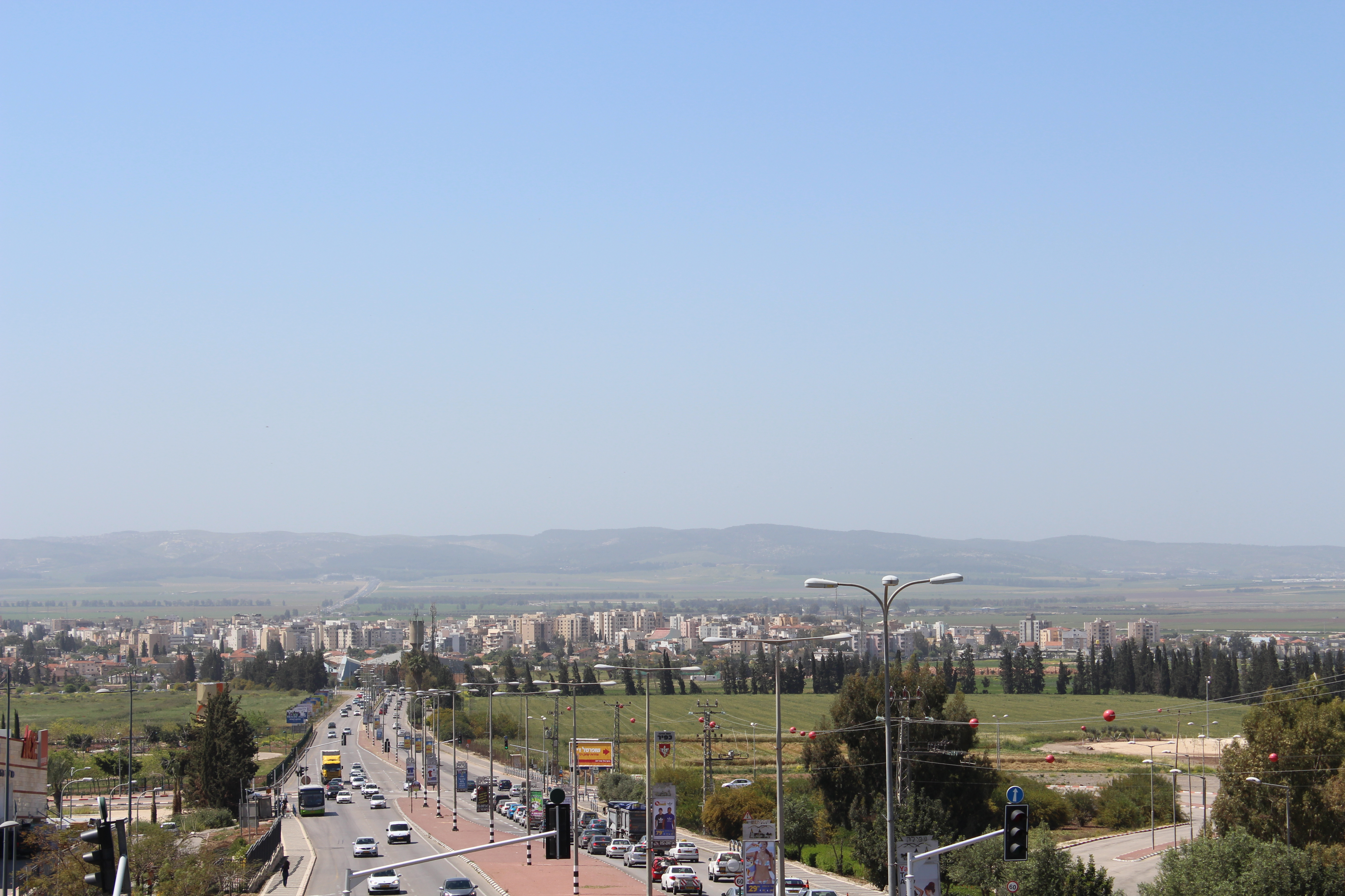 Afula, Israel This image was taken as part of the Elef Millim project trip to Afula Ilit, in the town of Afula in the Jezreel Valley, which was held on Friday, 29th March 2013. To view all images uploaded as part of the Elef Millim Project